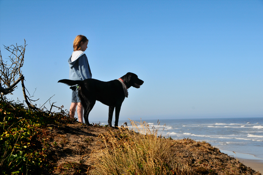 A Good Dog Can Bring Happiness to Your Life